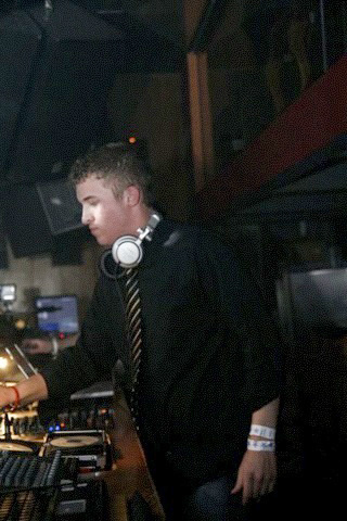 Ross Lara performing during the opening of BT at FUR Nightclub in Washington, D.C. December 2007